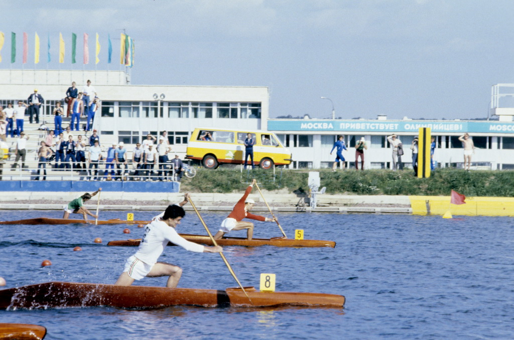 “Olympic champion Sergei Postrekhin”. The 22nd Summer Olympic Games. Rowing canal in Krylatsky. Soviet athlete Sergei Postrekhin finishing kayaking race and wins gold.